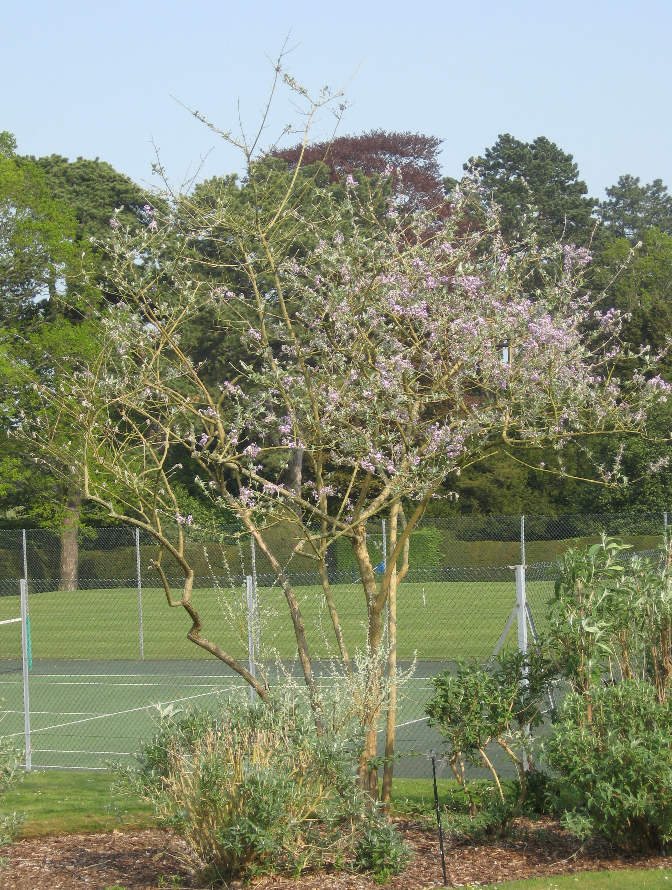 Photo of a mature specimen of Buddleja crispa var, farreri, growing in the Buddleja collection at Longstock Park Nursery, England. Category:Plants